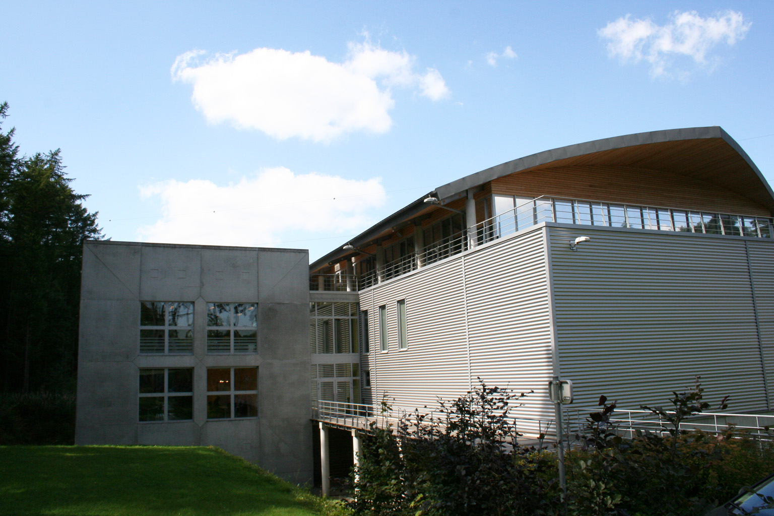 Eurogentec headquarters in Seraing, Liège, Belgium